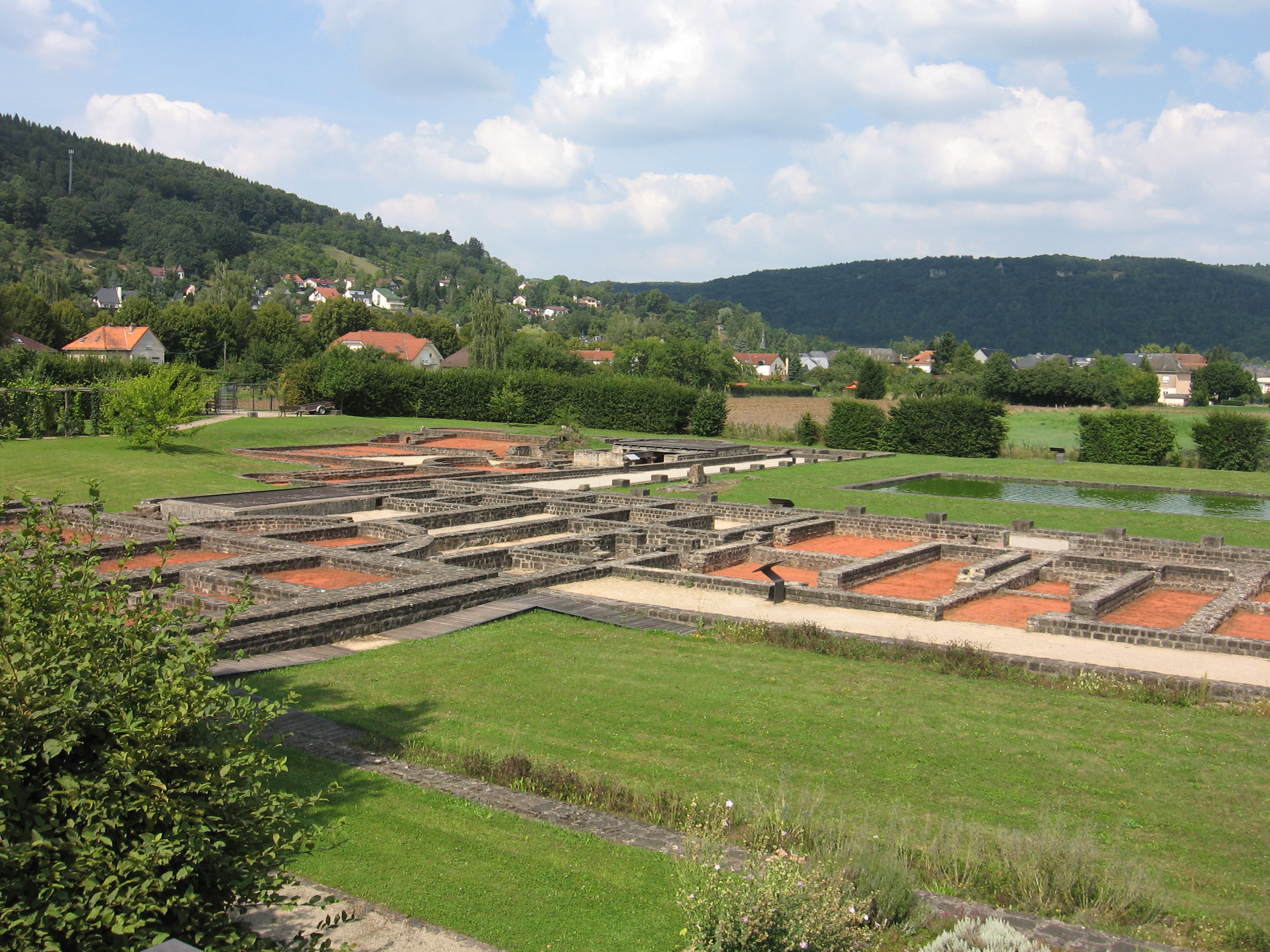 Lac de Echternach